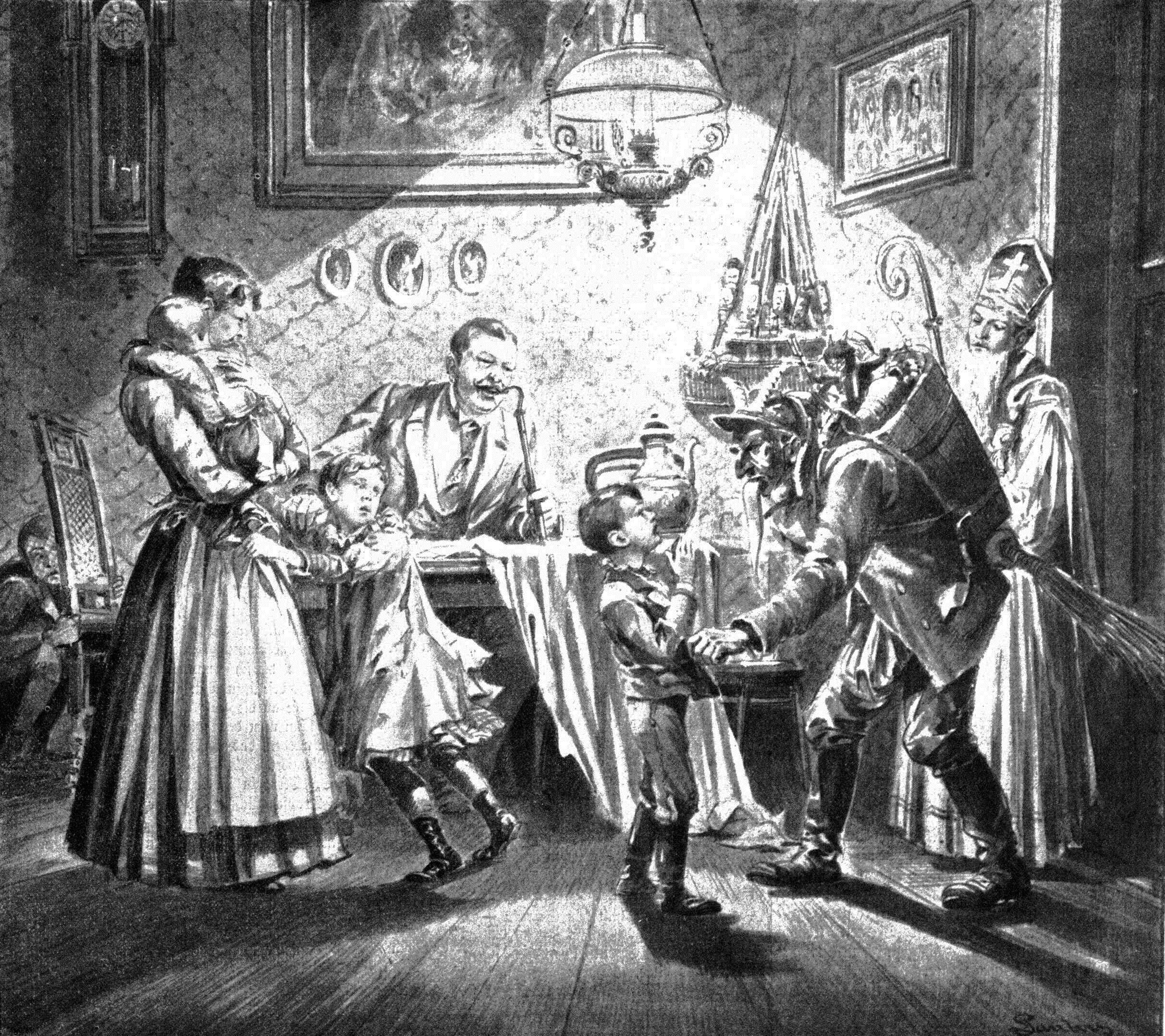 Nikolaus and Krampus in Austria. Newspaper-illustration from 1896